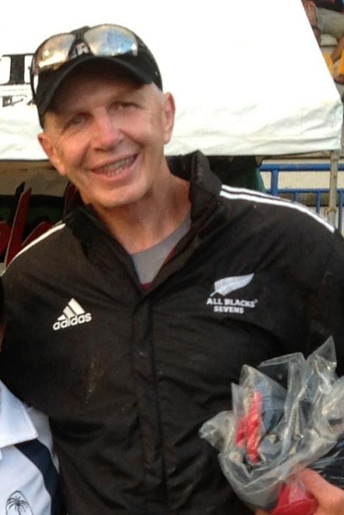 Gordon Tietjens at the 2013 Coral Coast 7's in Fiji yesterday (cropped)